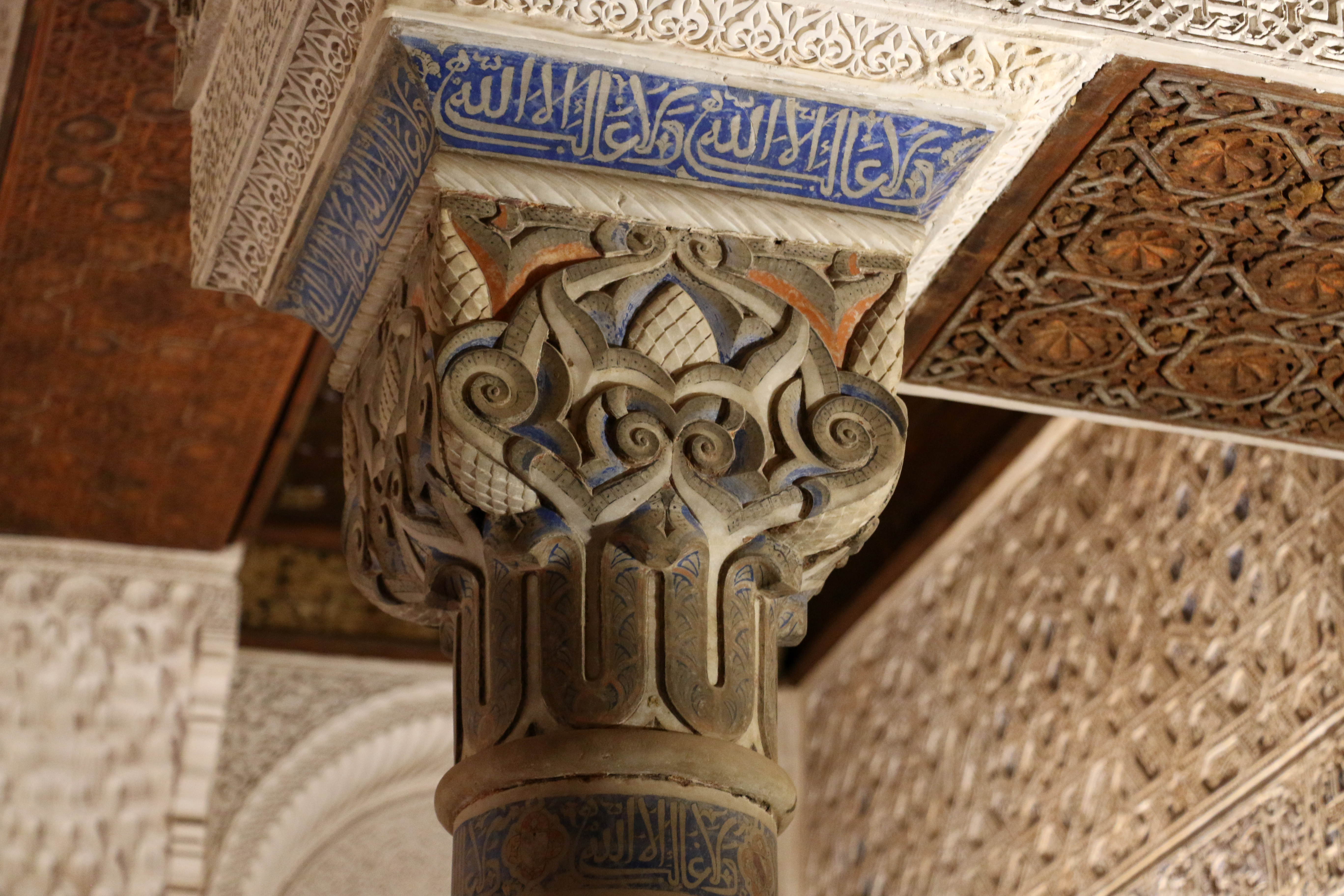 Alhambra - Granada